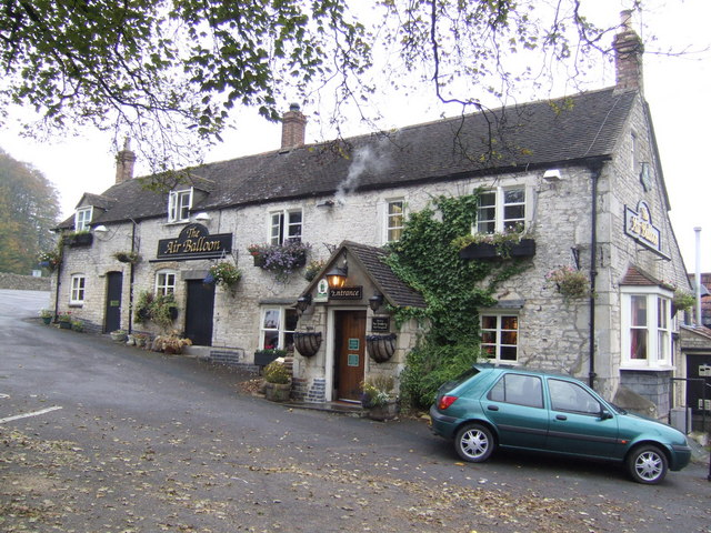 The Air Balloon The pub which gives its name to the roundabout on the A417 at the top of Crickley Hill. A venue for the odd Midwest Geograph meet.